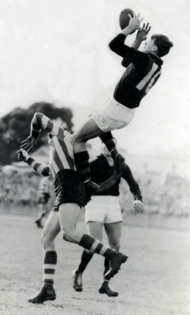 Australian rules footballer John Coleman of Essendon takes a spectacular mark over North Melbourne full-back Vic Lawrence, on Saturday 30 May 1953. For another version of the same mark, by another photographer, see [1], and [2]